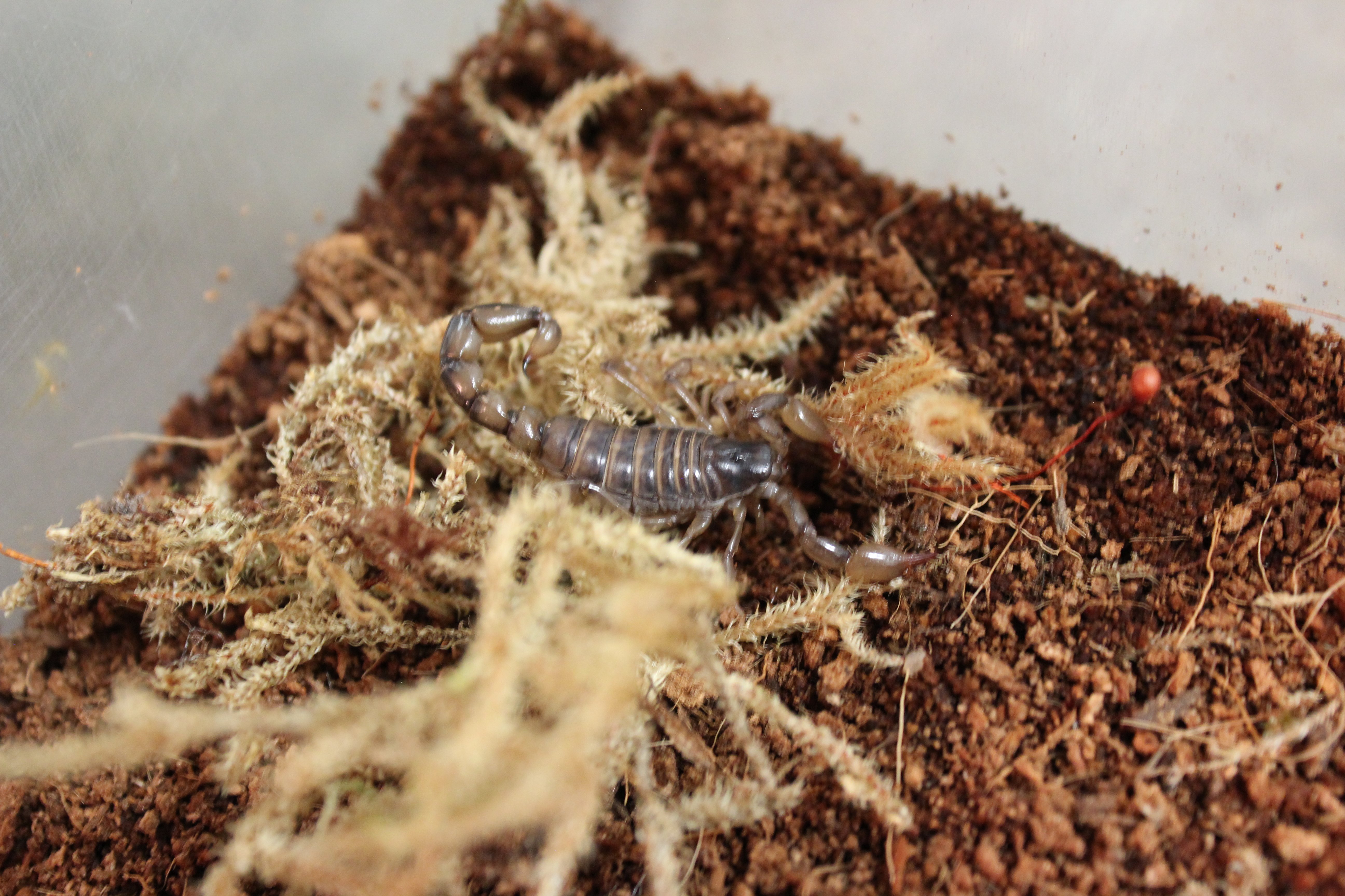 Chilean Scorpion Crawling through moss.